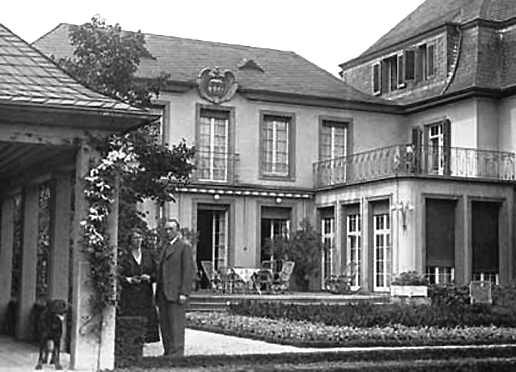 Cologne - Max-Bruch-Str. 6, Villa Adenauer (around 1915)